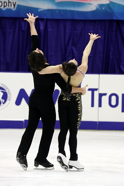 Tessa Virtue and Scott Moir at the 2016 NHK Trophy